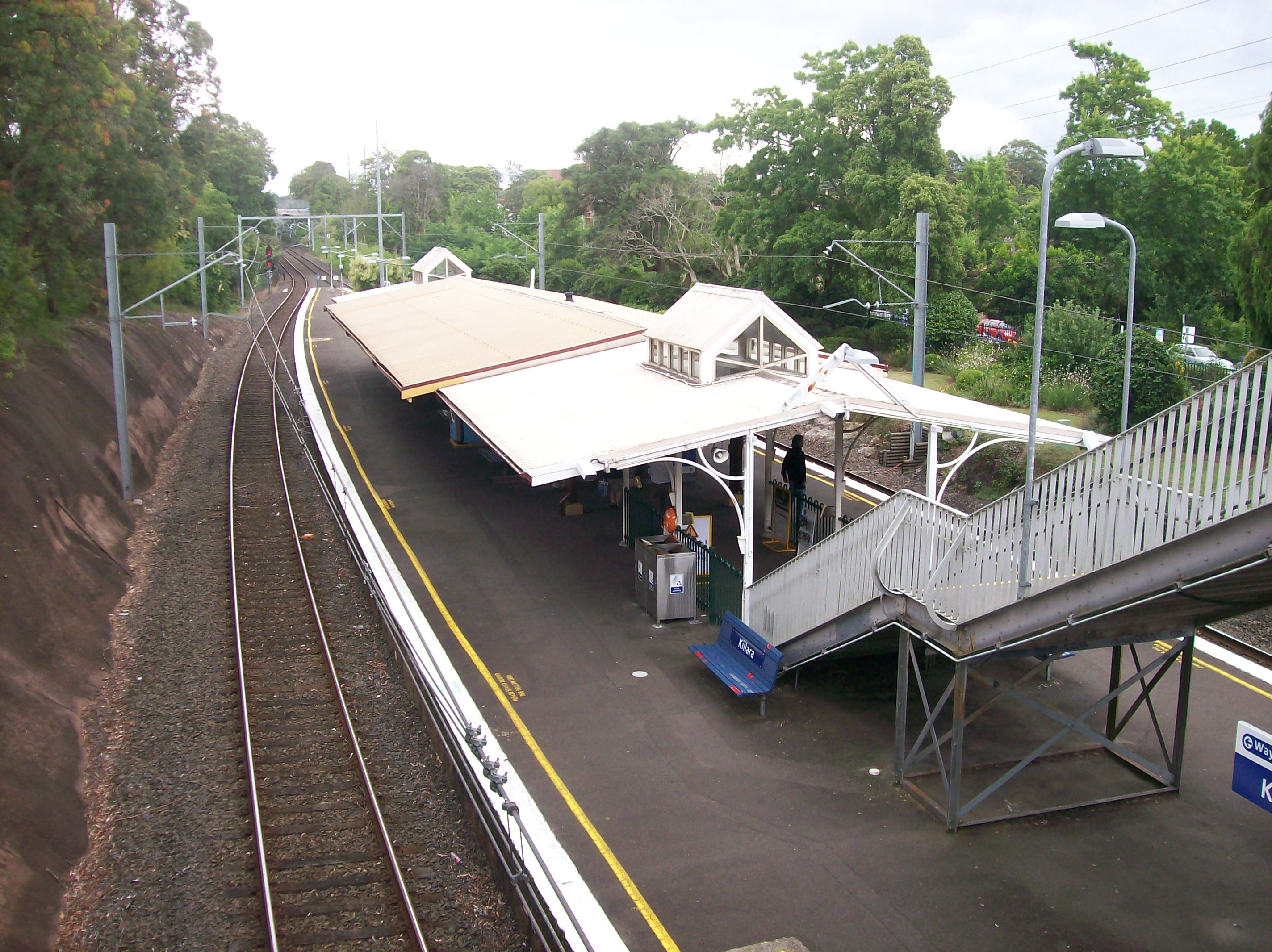 Killara railway station